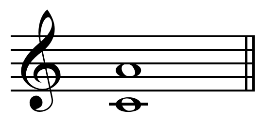 Major sixth on C = A. Just: 5:3 = 884.36 cents. Equal-tempered: 29/12:1 = 900 cents.